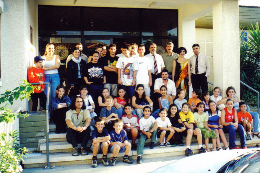 Group of Panagoum campers in front of Armenian Young Men's Association (1999)